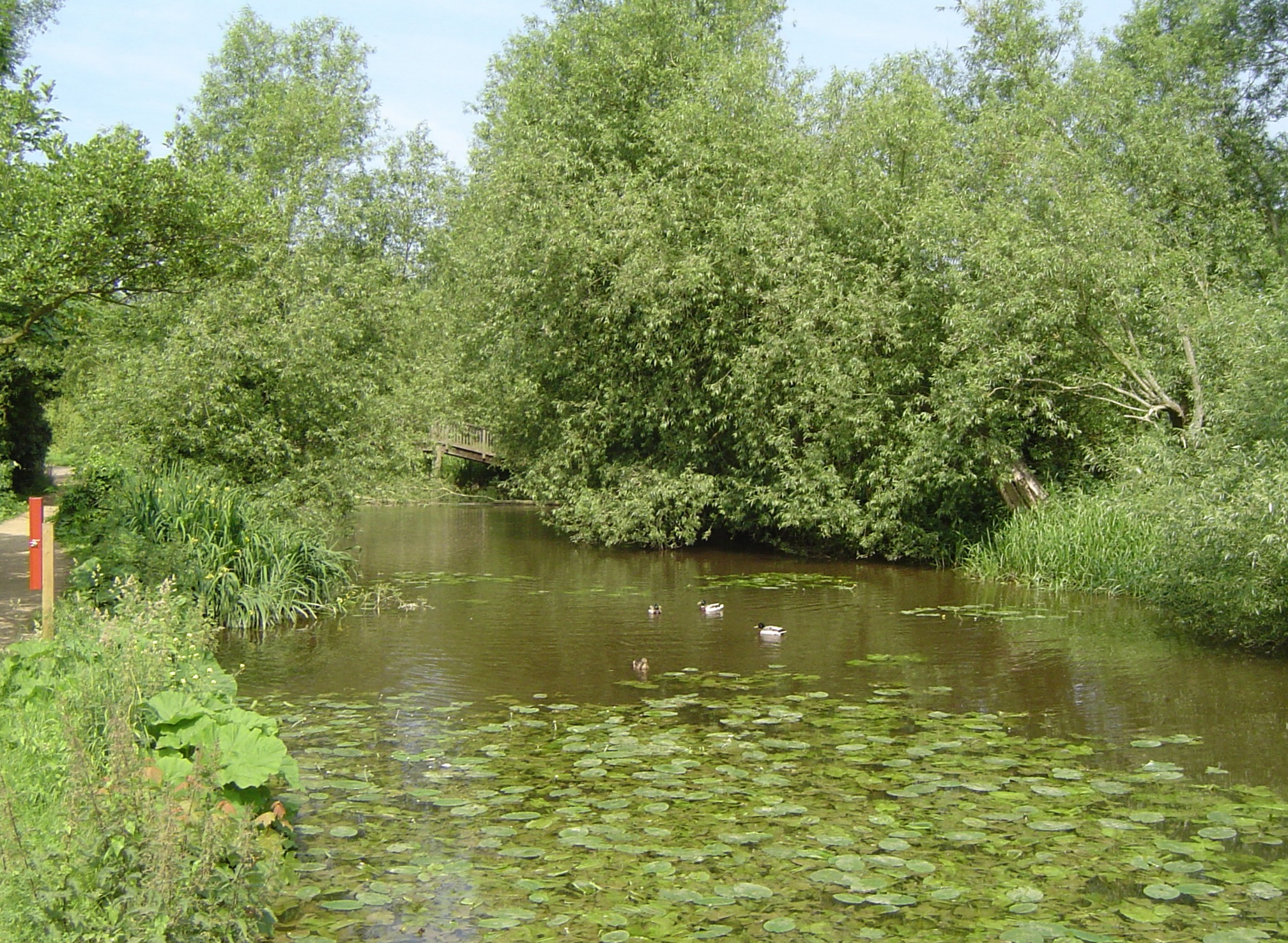 Navigation cut to Abingdon Abbey